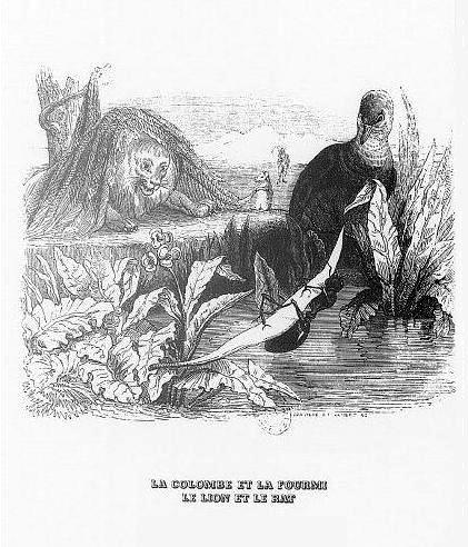 A plate combining the fables of "The Lion and the Mouse" and "The Dove and the Ant" from Les Fables de LaFontaine illustrated by J. J. Grandville, Paris, 1838